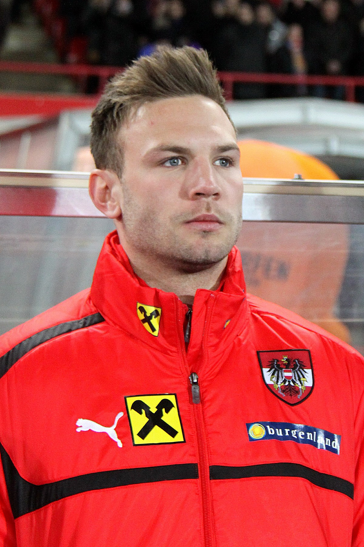 2014 FIFA World Cup qualification (UEFA), Group C: Austria national football team vs. Faroe Islands national football team 6:0 in the Ernst-Happel-Stadion in Vienna at 2013-03-22. – The photo shows Andreas Weimann (Austria).